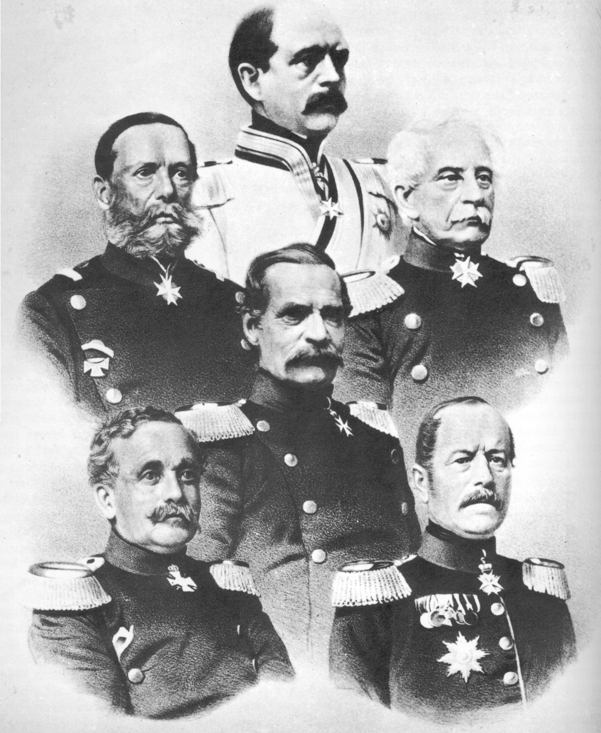 Prussian military leaders involved in Sadowa, 1866 Top-down, left-right : Otto von Bismarck General Eduard Vogel von Falckenstein General Karl Friedrich von Steinmetz Albrecht Graf von Roon Général Eduard Moritz von Flies General Karl Eberhard Herwarth von Bittenfeld